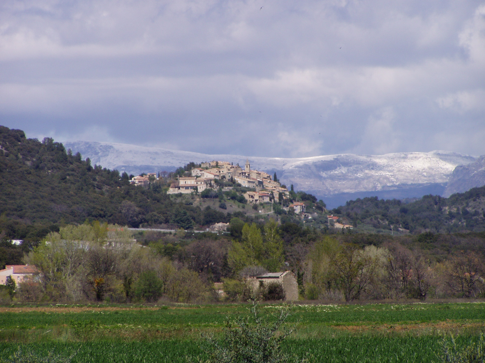 The village of Montfort, seen of Peyruis